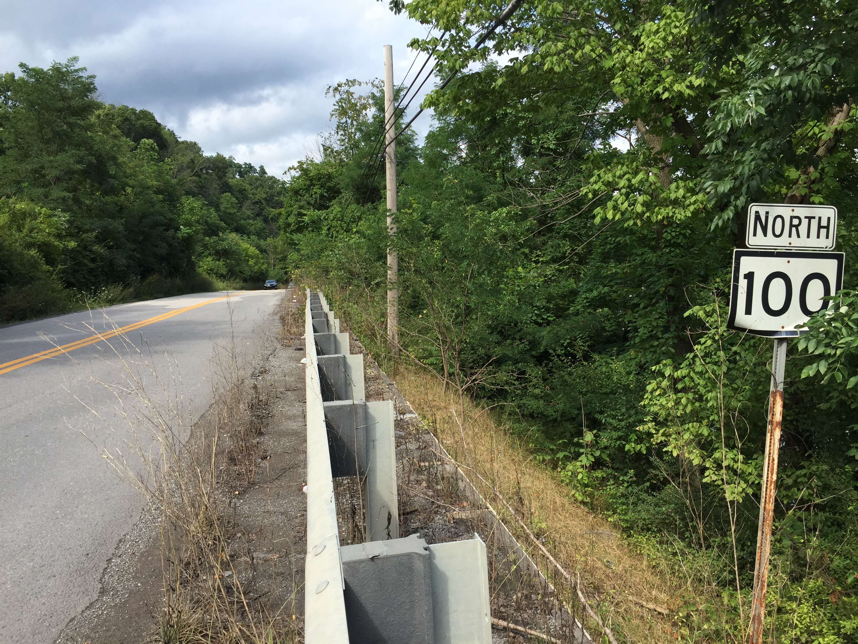 View north along West Virginia State Route 100 (Lazzelle Union Road) at Scotts Run Road (Monongalia County Route 19/25) in Bertha Hill, Monongalia County, West Virginia